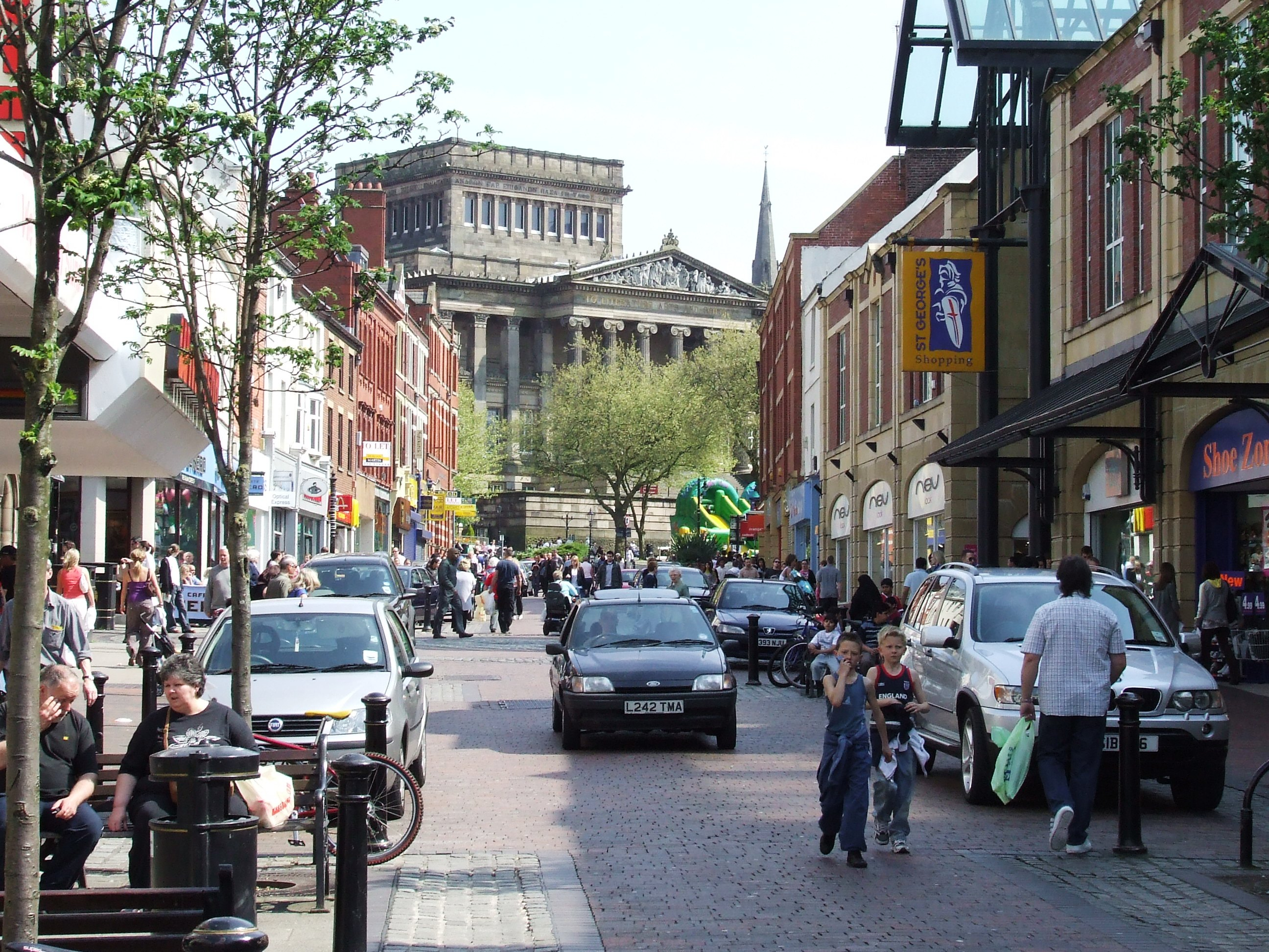 Friargate Preston on a busy weekday afternoon